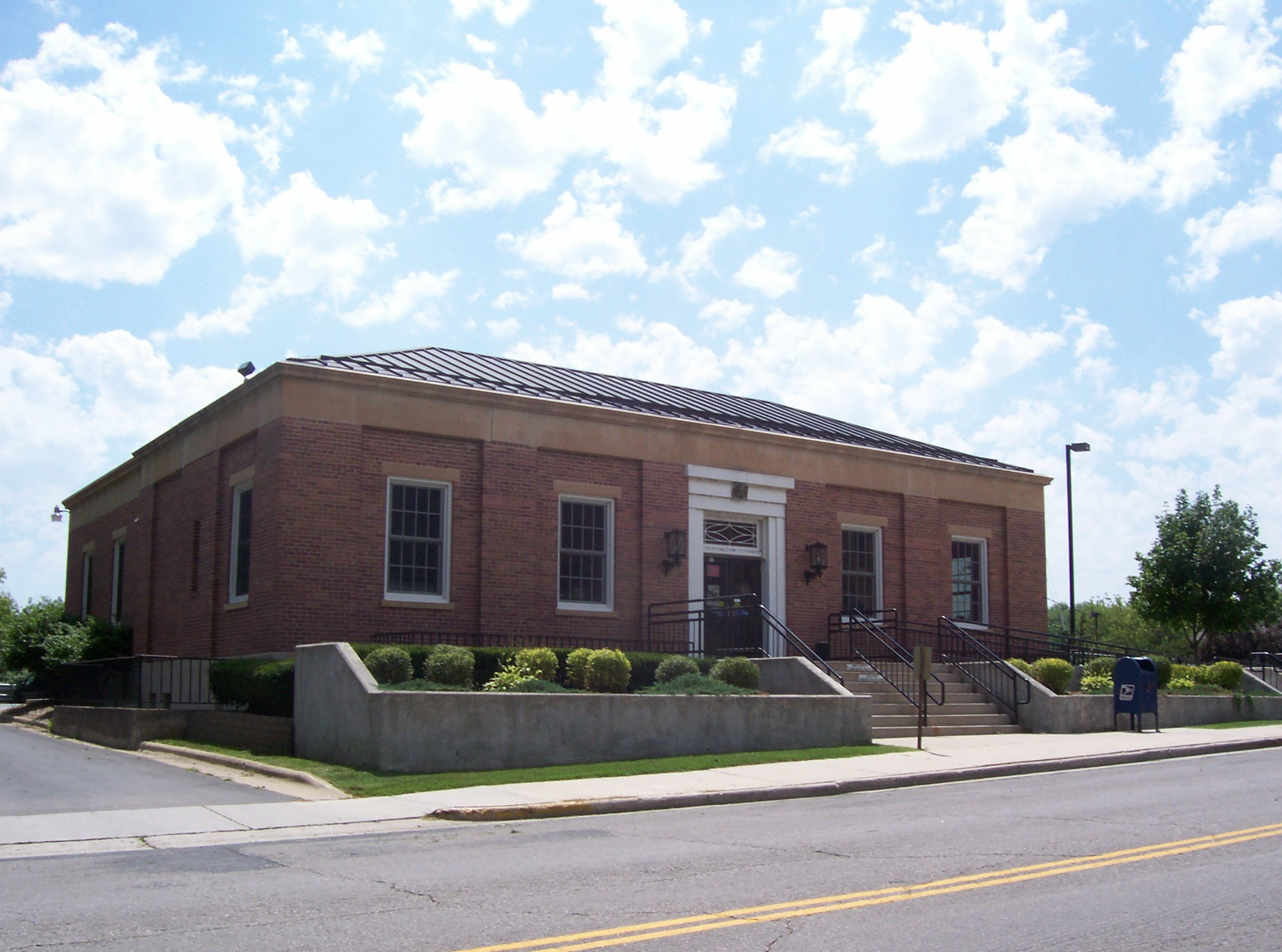 Chilton Post Office in Chilton, Wisconsin, USA. The site is listed on the National Register of Historic Places. I took this image myself on August 1, 2006, and cropped.